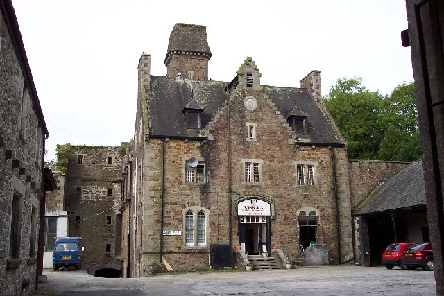 Bodmin Gaol. Now largely derelict, though part has been converted into a pub, this was the scene of scene of over 50 public hangings in its 150 years of use. Indeed, the first special train to run on the Bodmin & Wadebridge Railway, which opened in 1834 and ran past the gaol's walls, was to carry spectators to one of these events.